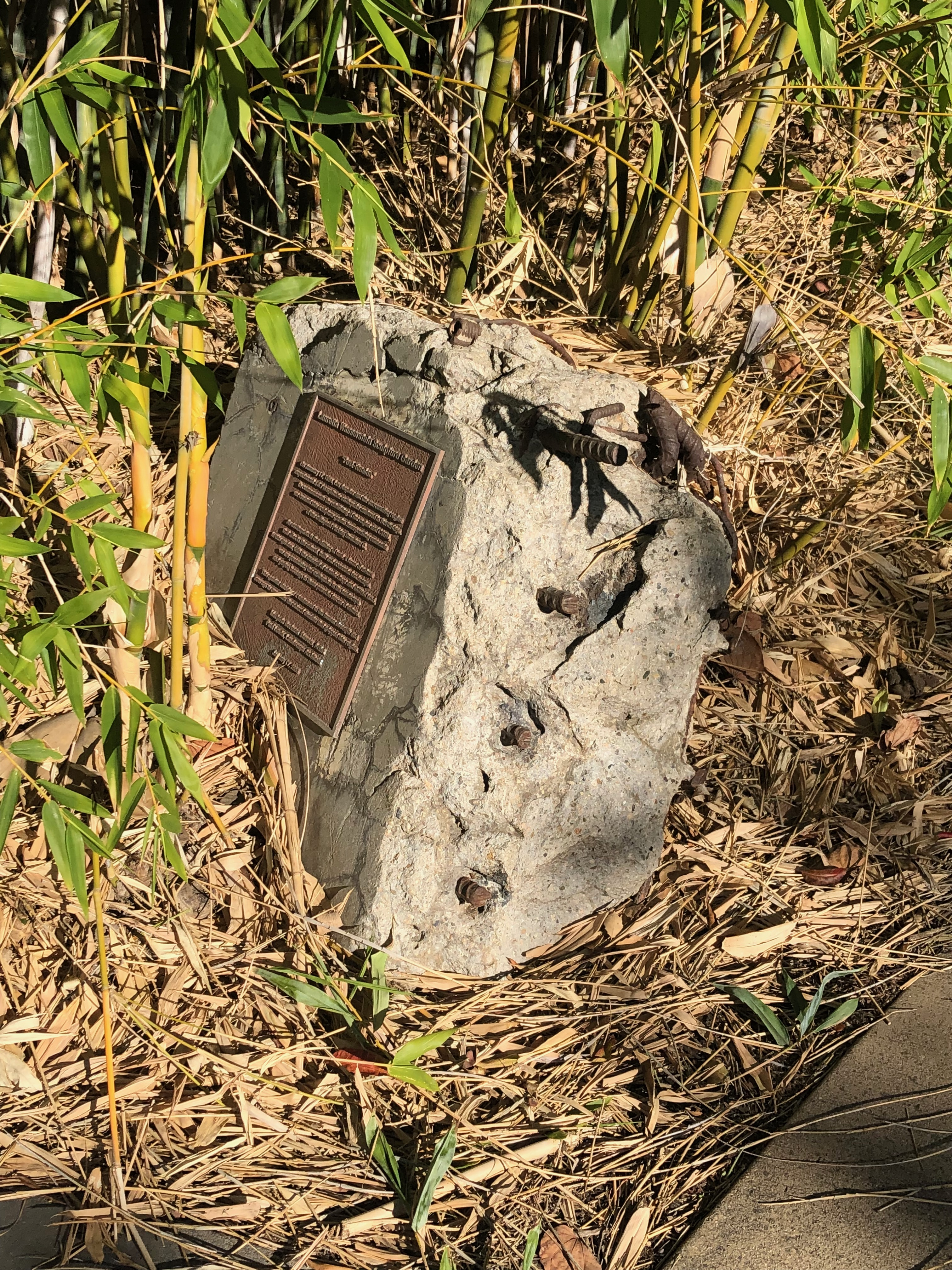 Remains from the collapsed Parking Structure C